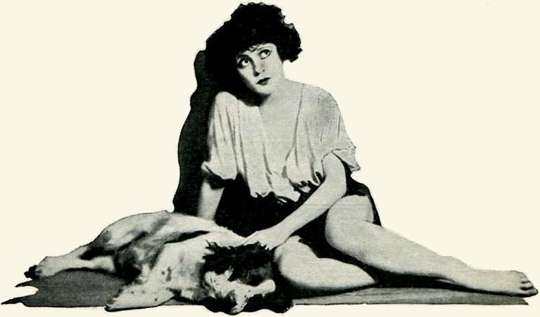 Actress Julia Bruns (1895 – 1927) in the play Beware of Dogs, on page 27 of the February 1922 The Tatler.